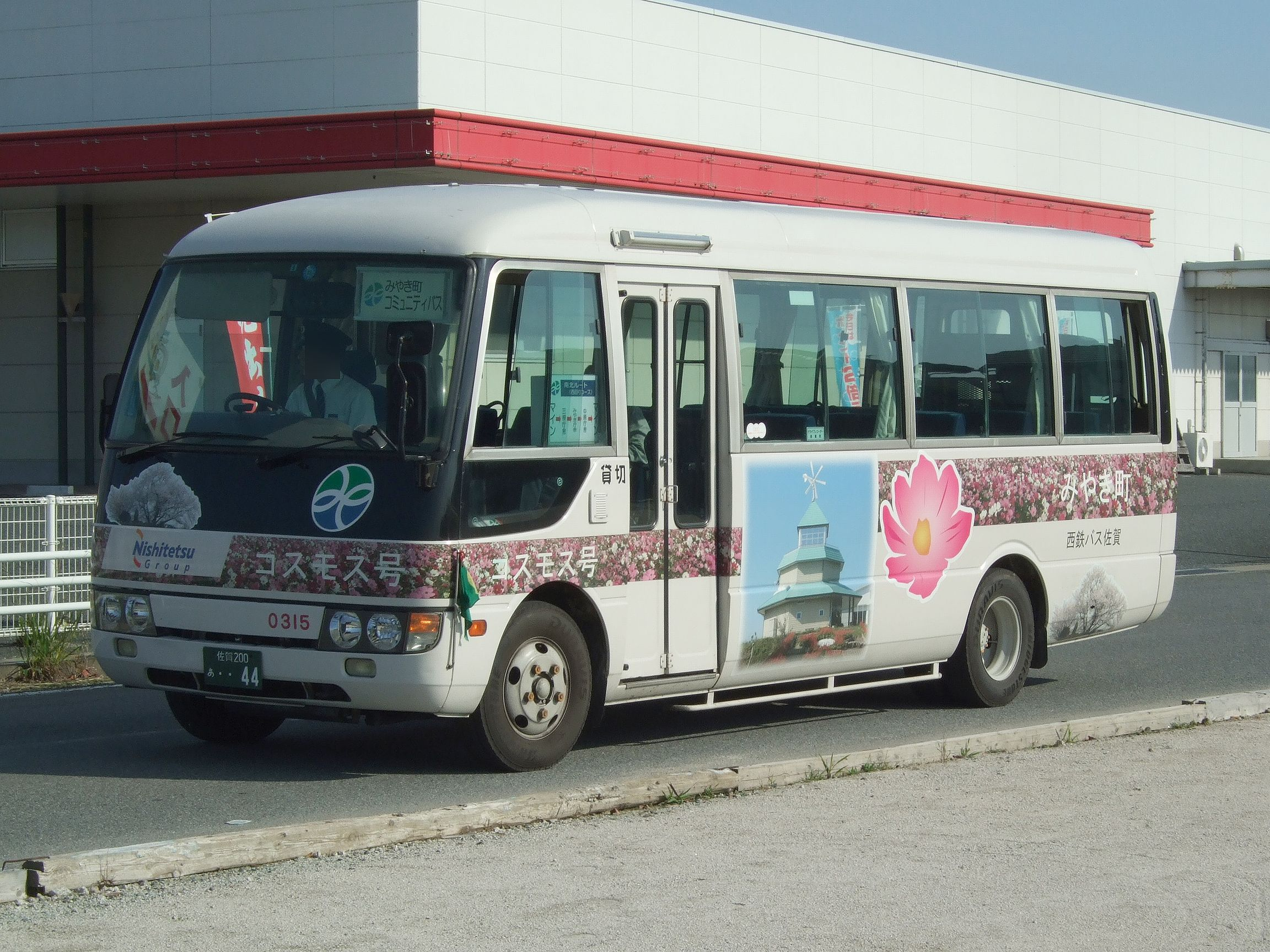 Miyaki Town Community Bus Cosmos-go